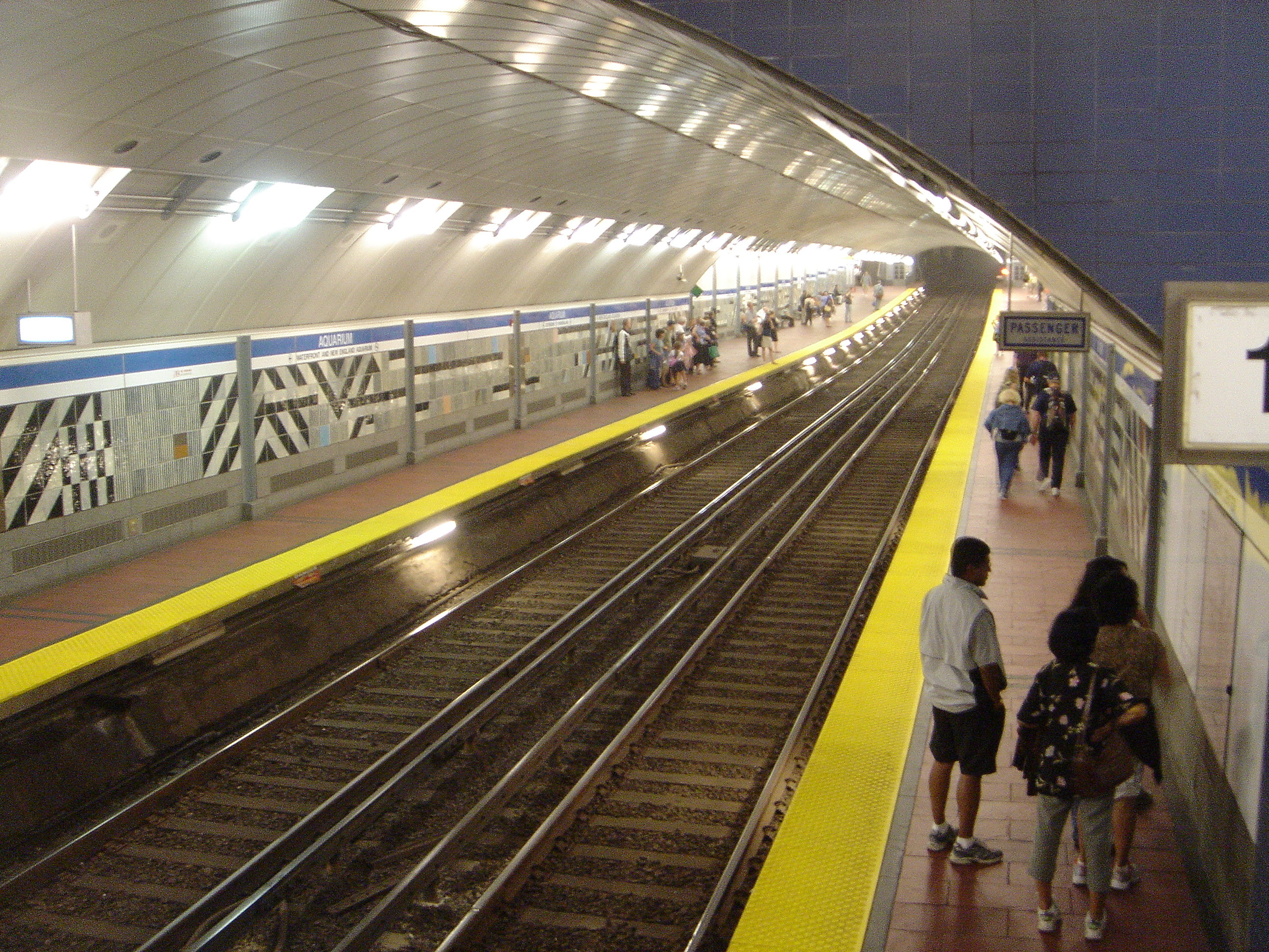 Aquarium station on the MBTA Blue Line, looking inbound (west)